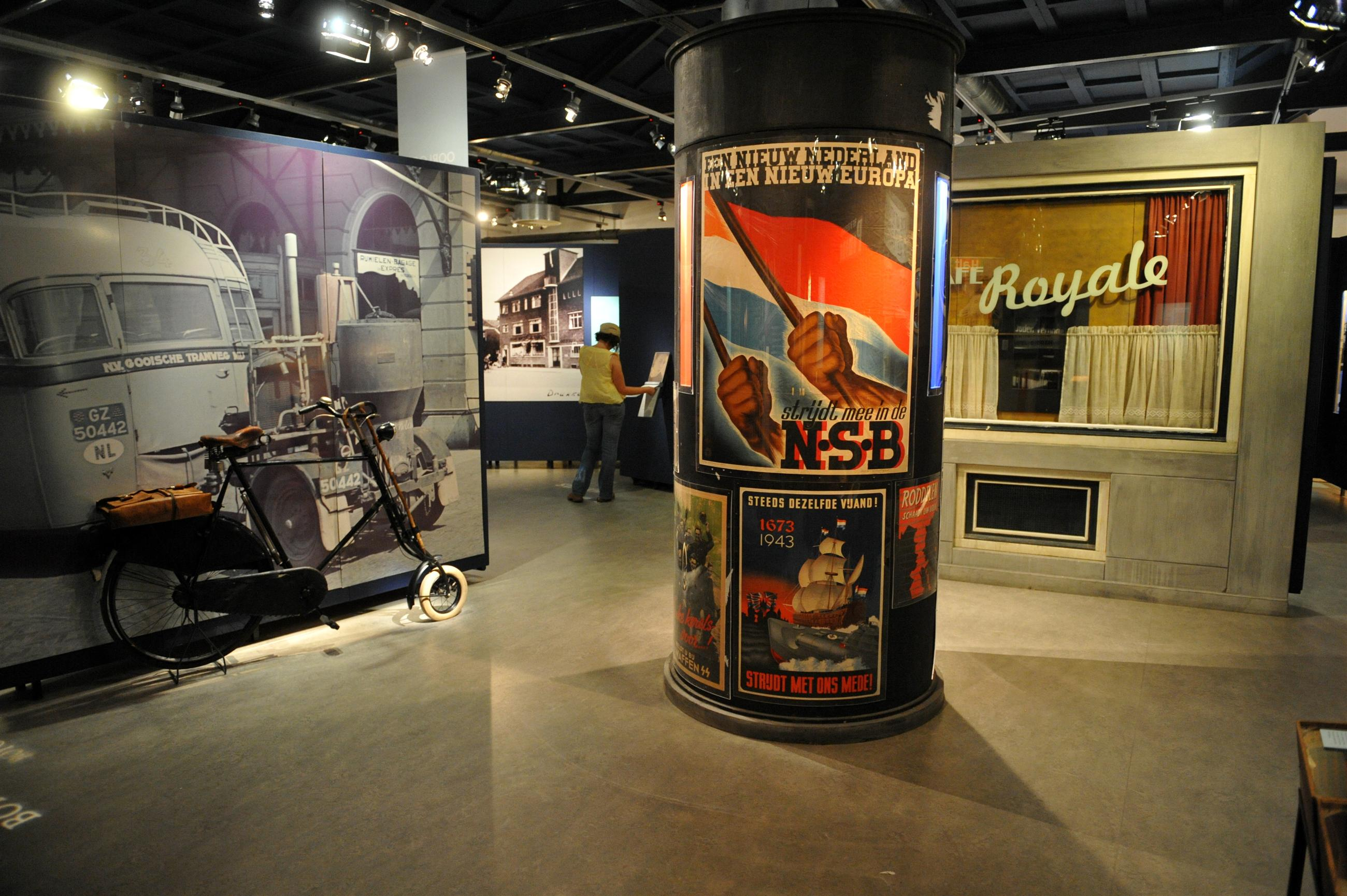 Dutch Resistance Museum, Amsterdam